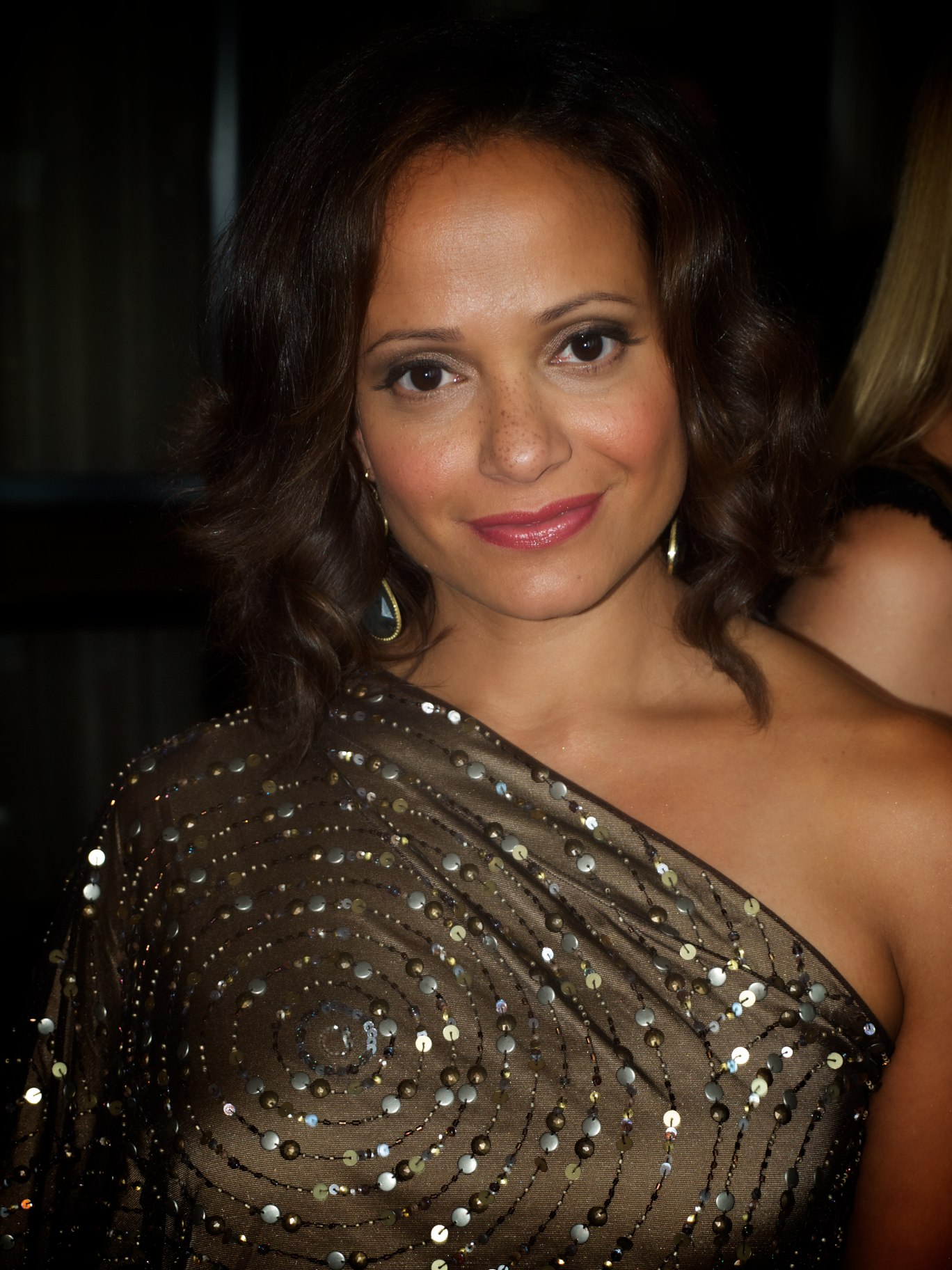 Actress Judy Reyes at the 2012 Imagen Foundation Awards.